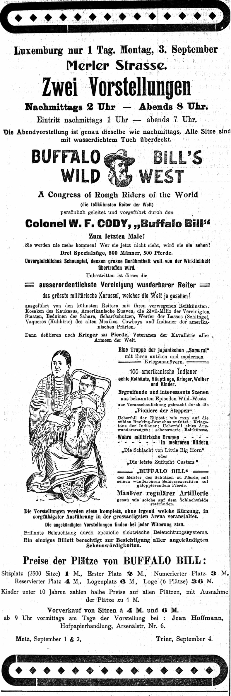 Advertisment for Buffalo Bill's Wild West Show, on 3 September 1906 in Luxembourg city; found in Luxemburger Wort of 22 August 1906, p.4.